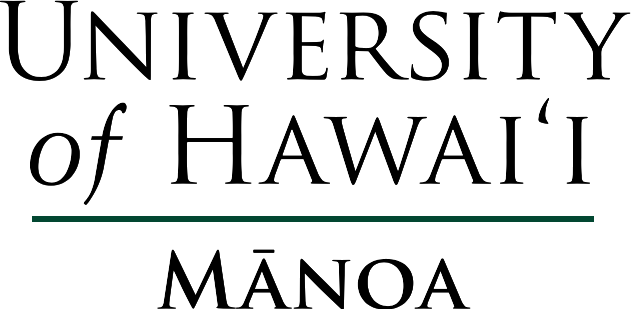 University of Hawaii at Manoa logo.